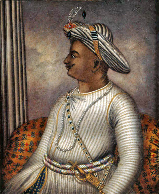 Portrait of Tipu Sultan once owned by Richard Colley Wellsley, now in the care of the British Library.